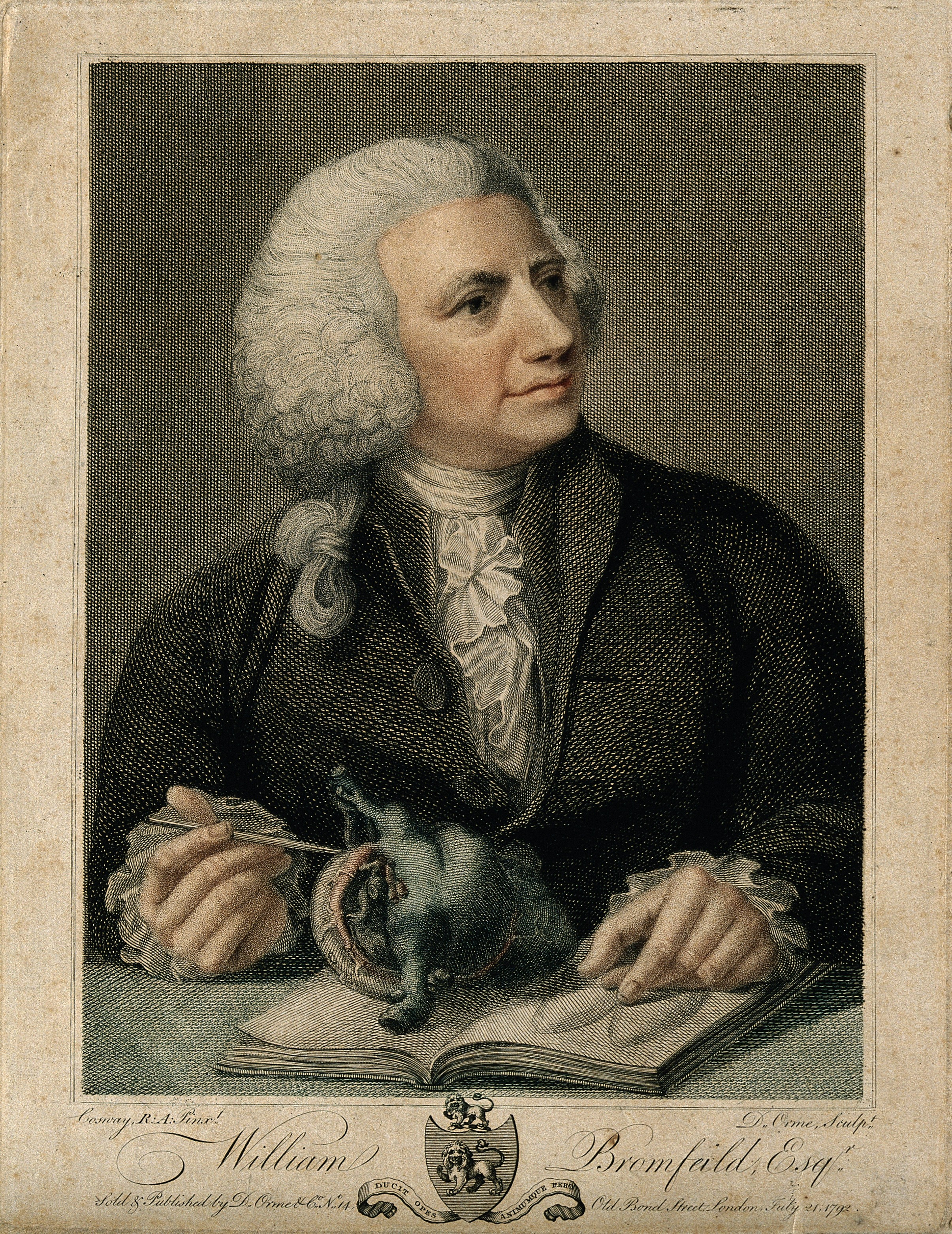 William Bromfield. Coloured engraving by D. Orme, 1792, after R. Cosway. Iconographic Collections Keywords: intaglio prints; portrait prints; Daniel Orme; William Bromfield; bromfield, william, sir, 1712-; Richard Cosway